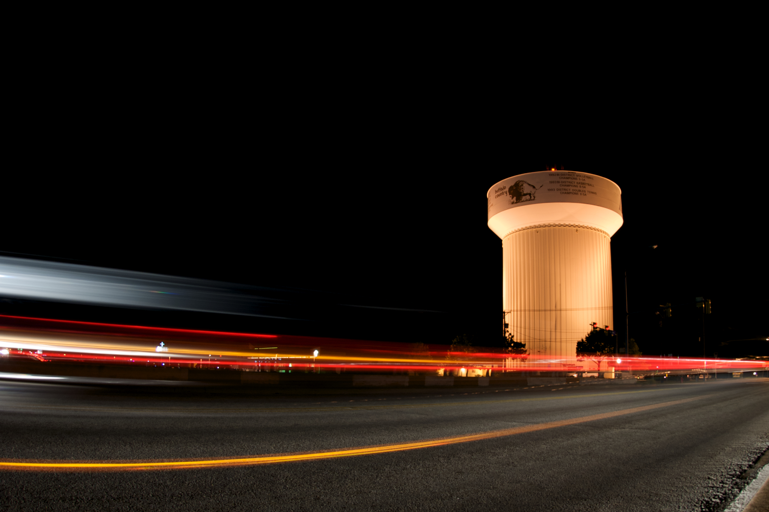 Haltom City, TX